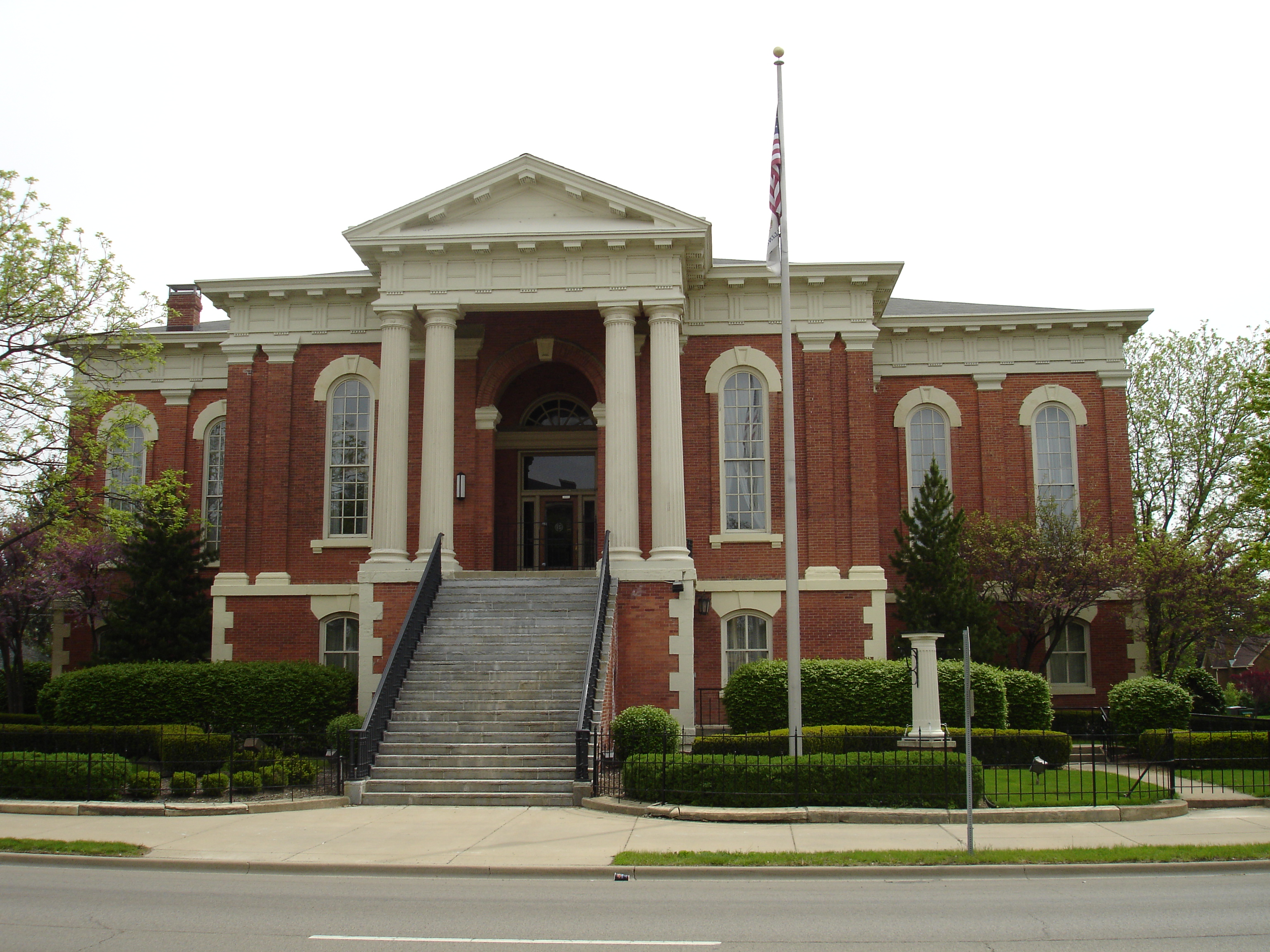 3rd Appellate Court Building in Ottawa, Illinois, USA, part of the Washington Park Historic District, U.S. National Register of Historic Places.